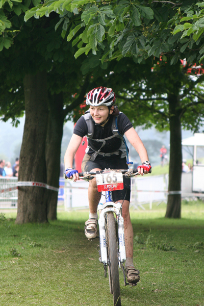 Nina Davies competing at the British National Mountain Biking Marathon Championships 2008 at Margam Park.